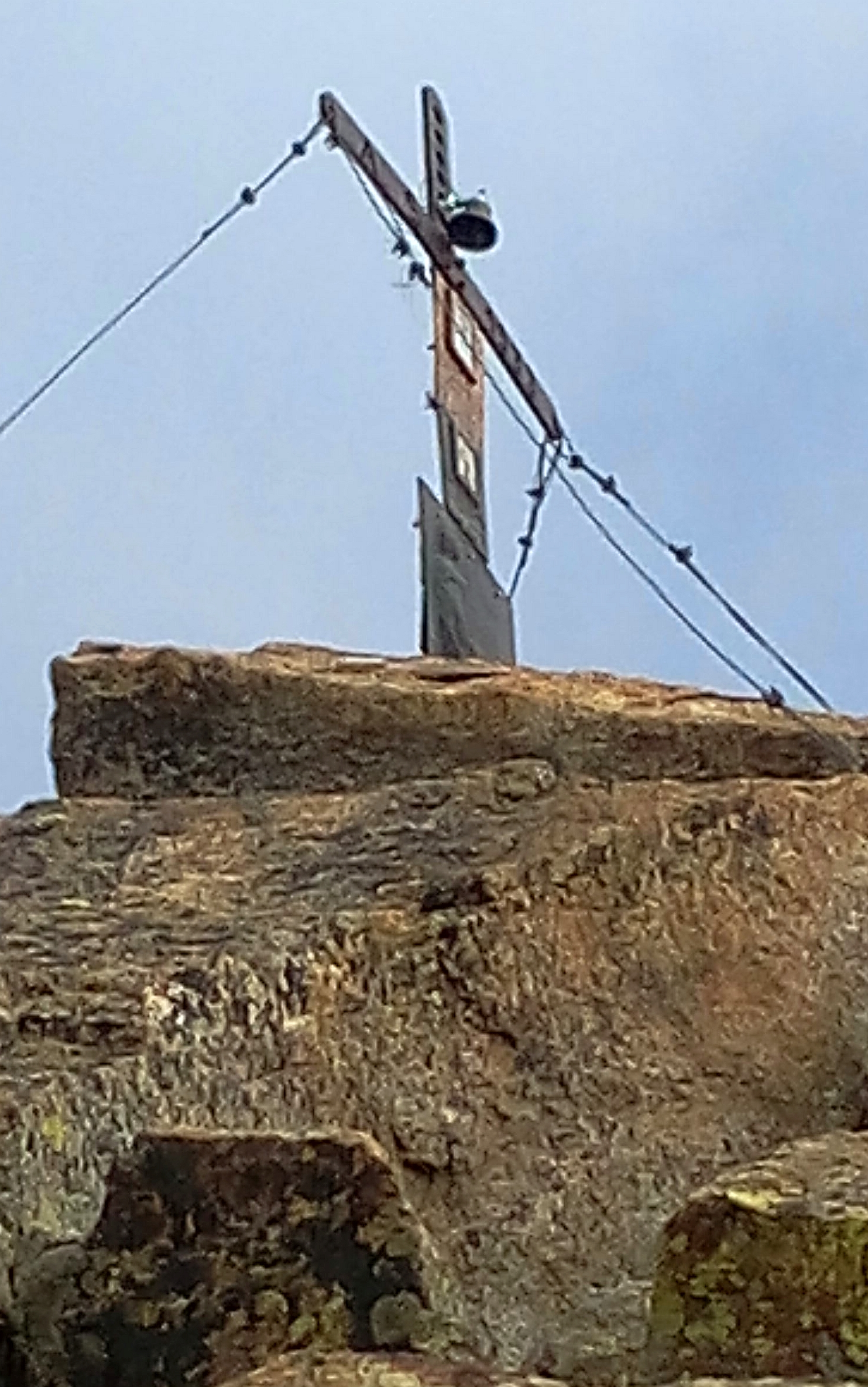 Monte Colombo (Graian Alps, Italy): summit cross